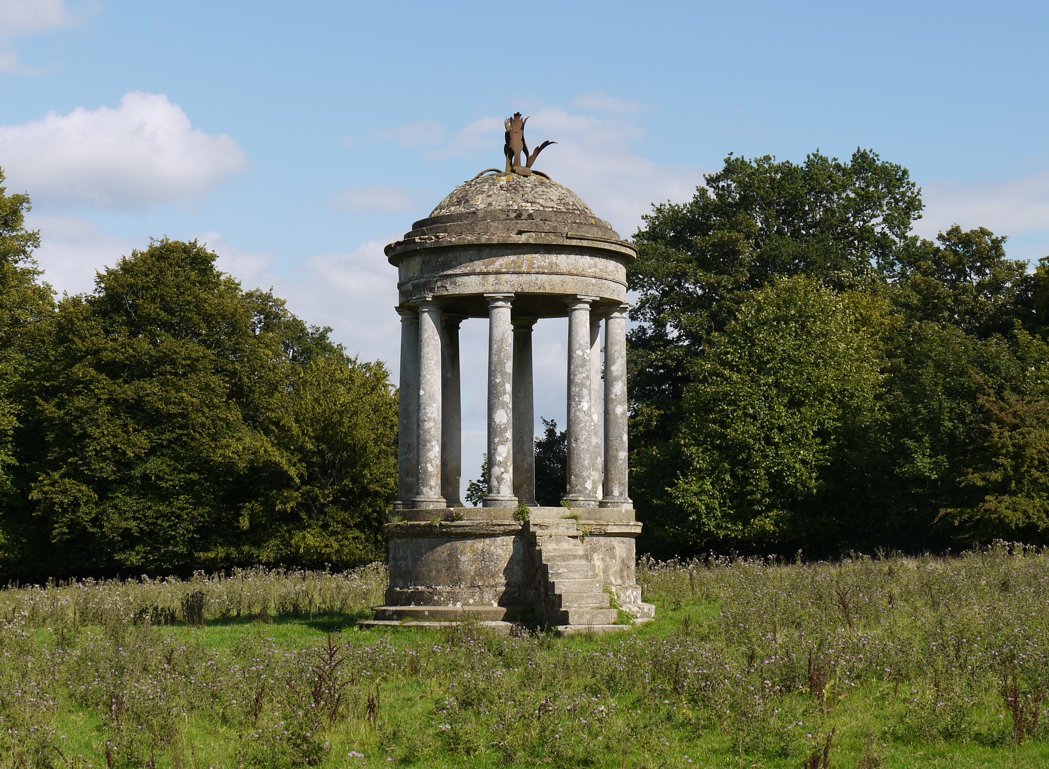 Photo of the beacon folly at Staunton Country Park